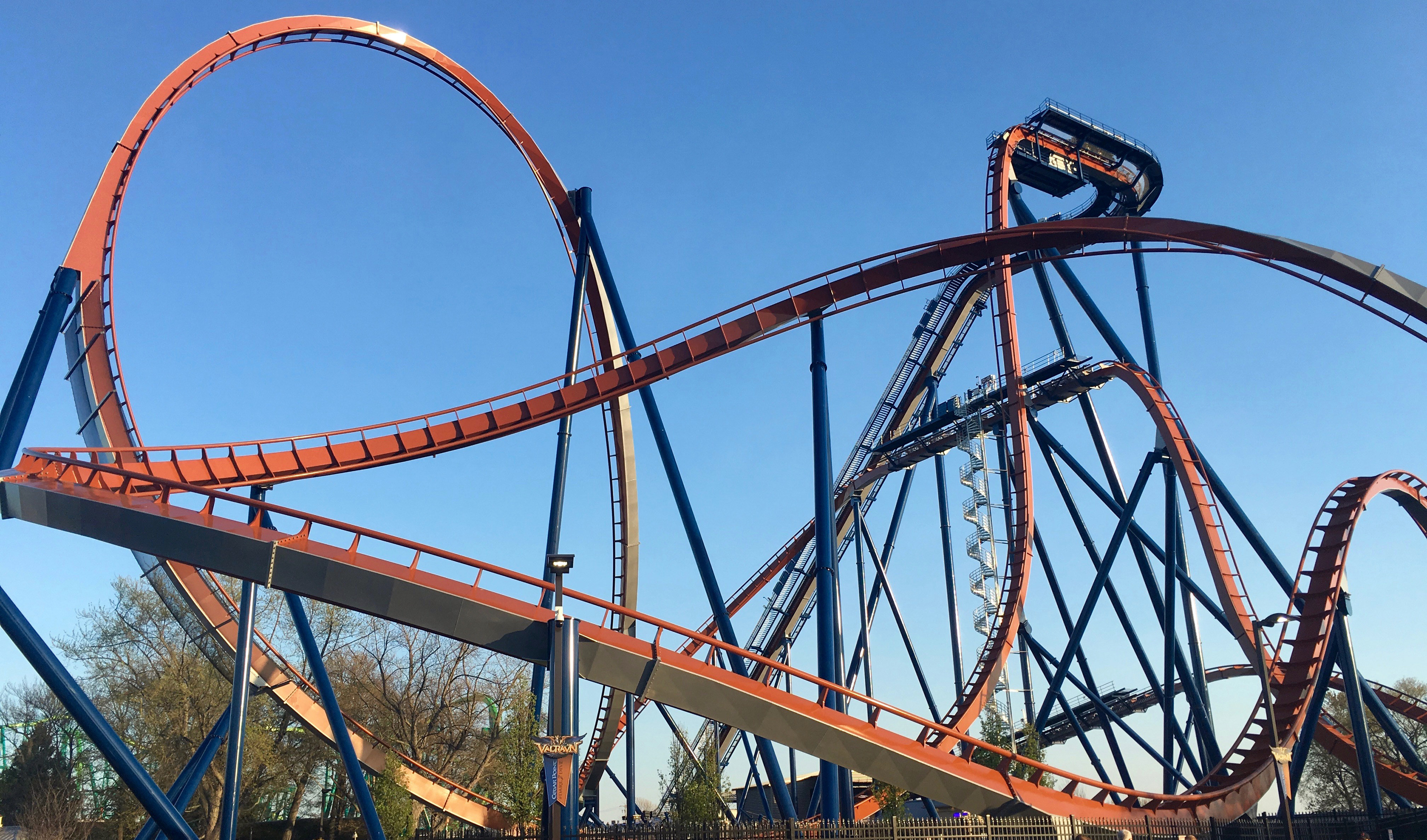 Track of Valravn (roller coaster) at Cedar Point.